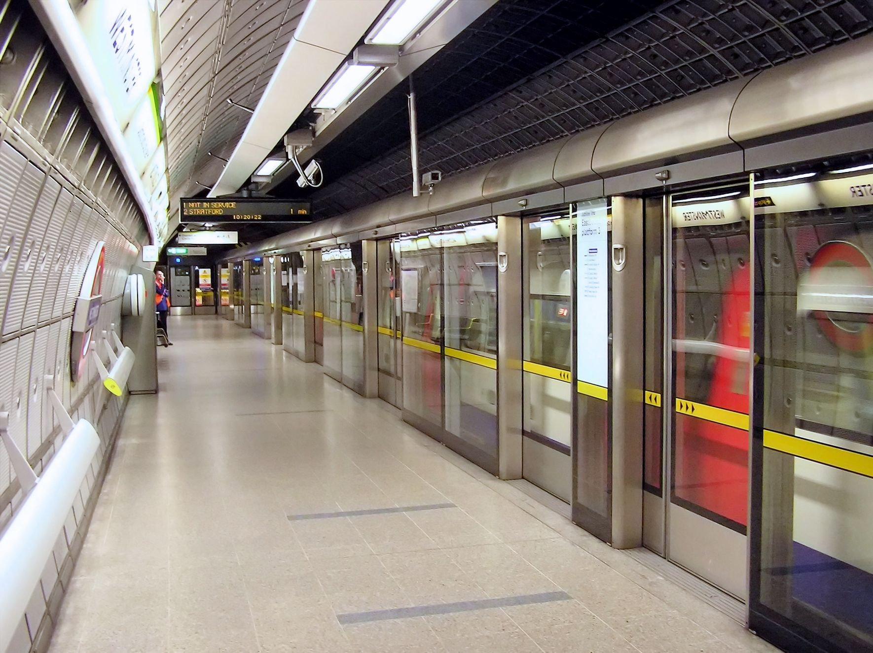 The Jubilee Line platform of Westminster tube station, London, England. Photographed by Adrian Pingstone in June 2005 and released to the public domain.